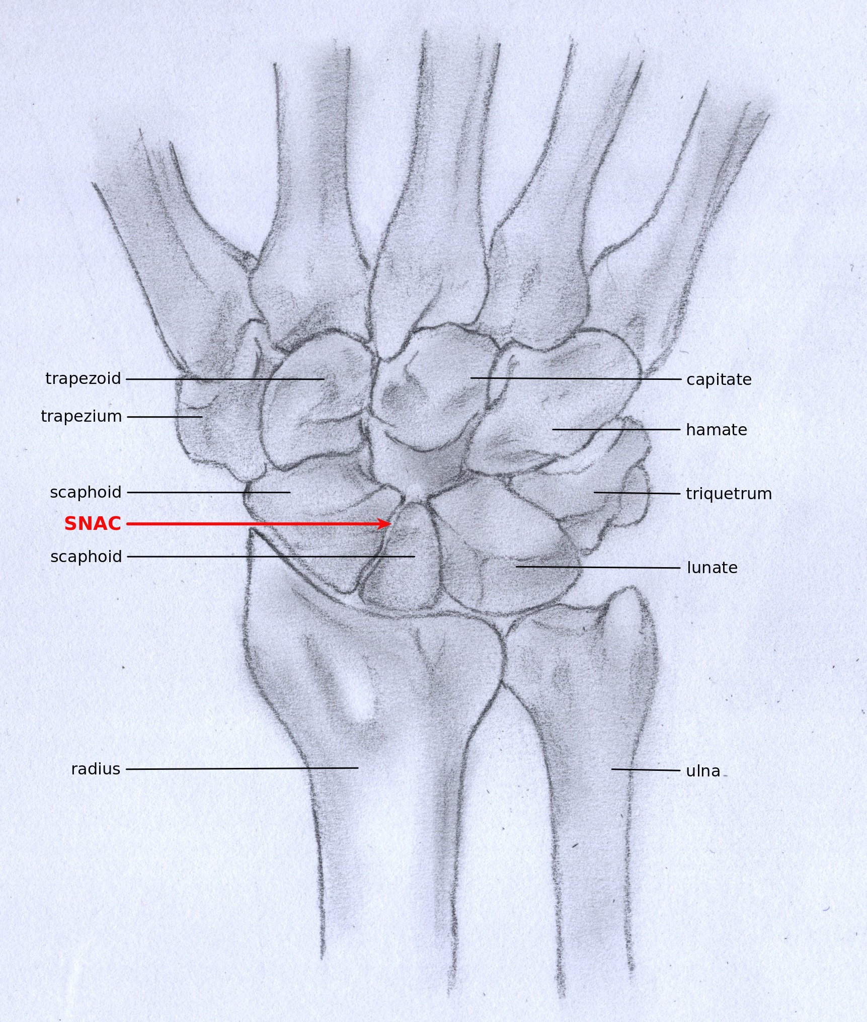 SNAC (Scaphoid Nonunion Advance Collapse)